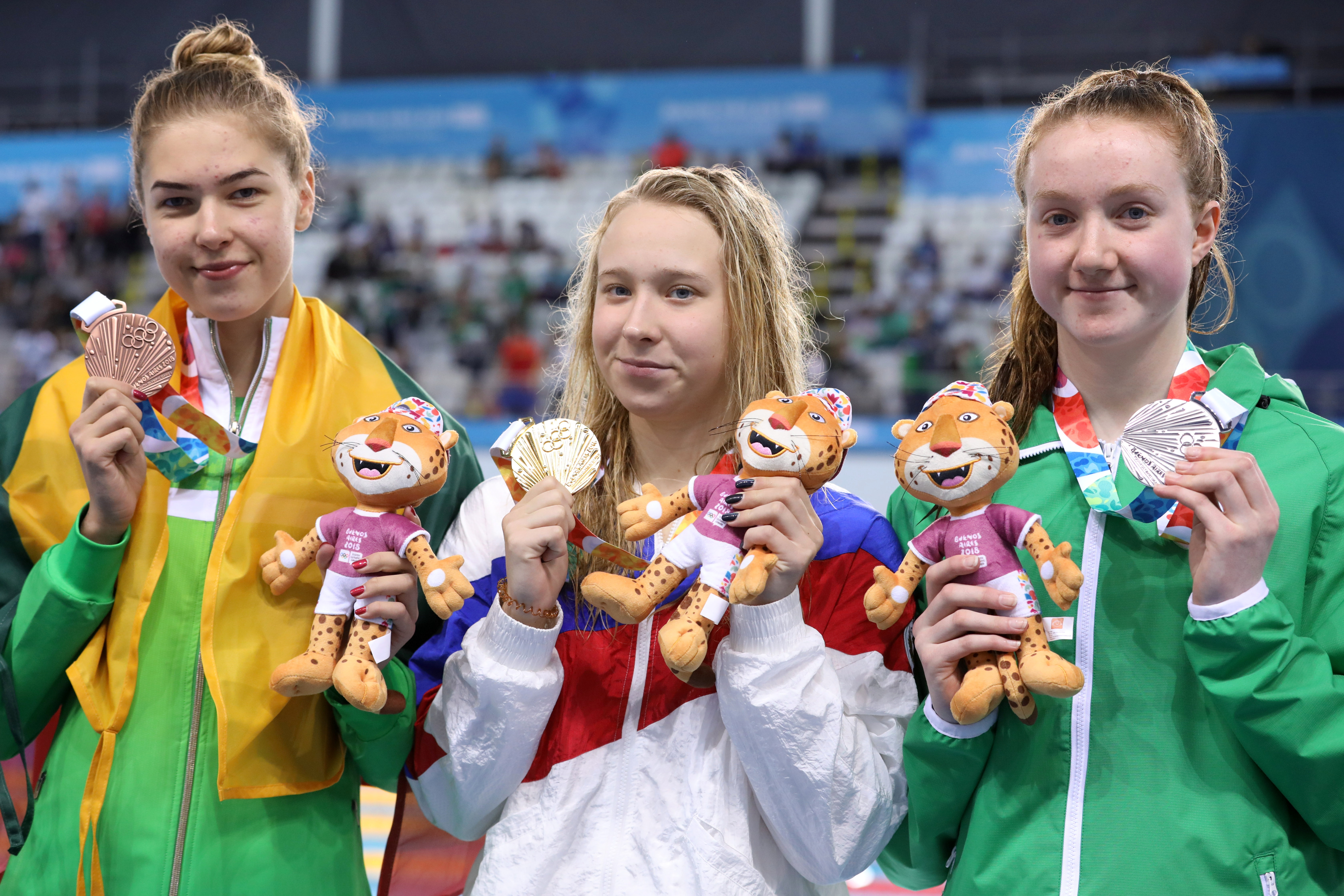 Girls' Swimming, 100 m Breaststroke Final at the 2018 Summer Youth Olympics in Buenos Aires at the 10th October 2018